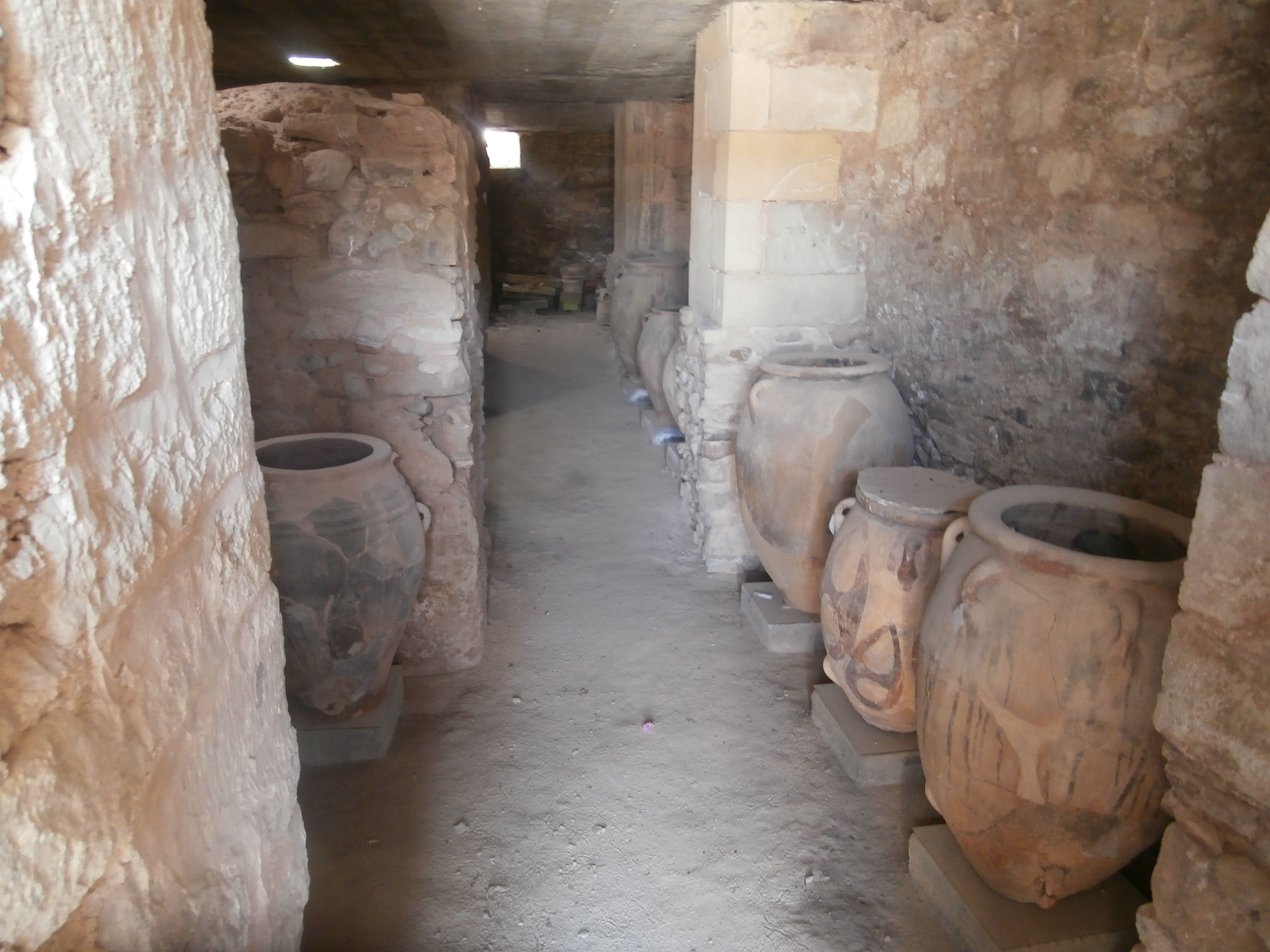 Minoan pottery in a warehouse in Phaistos palace